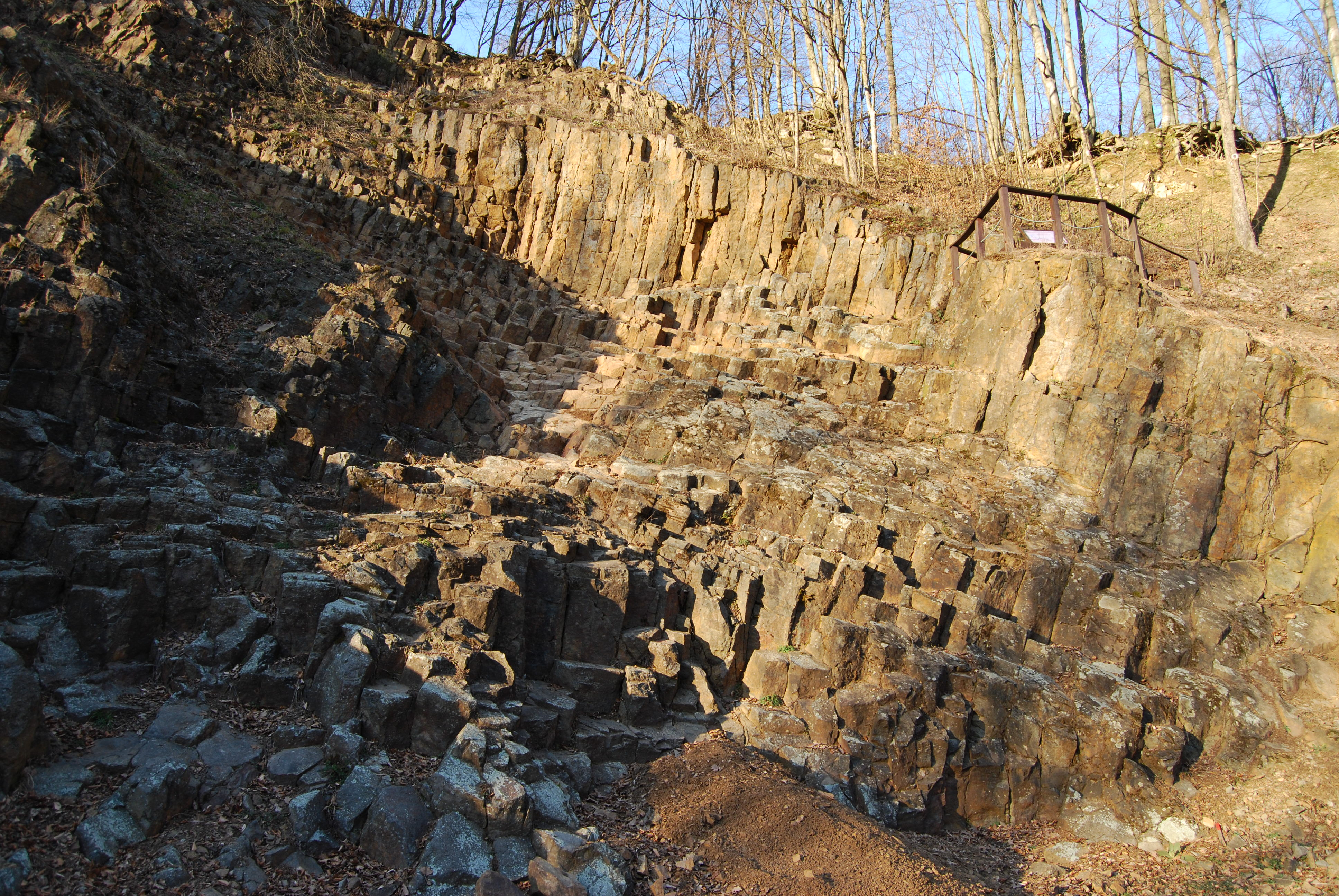 Geological monument Rupnica with columnar basalts near village Voćin, Croatia - Google Maps - Google Earth